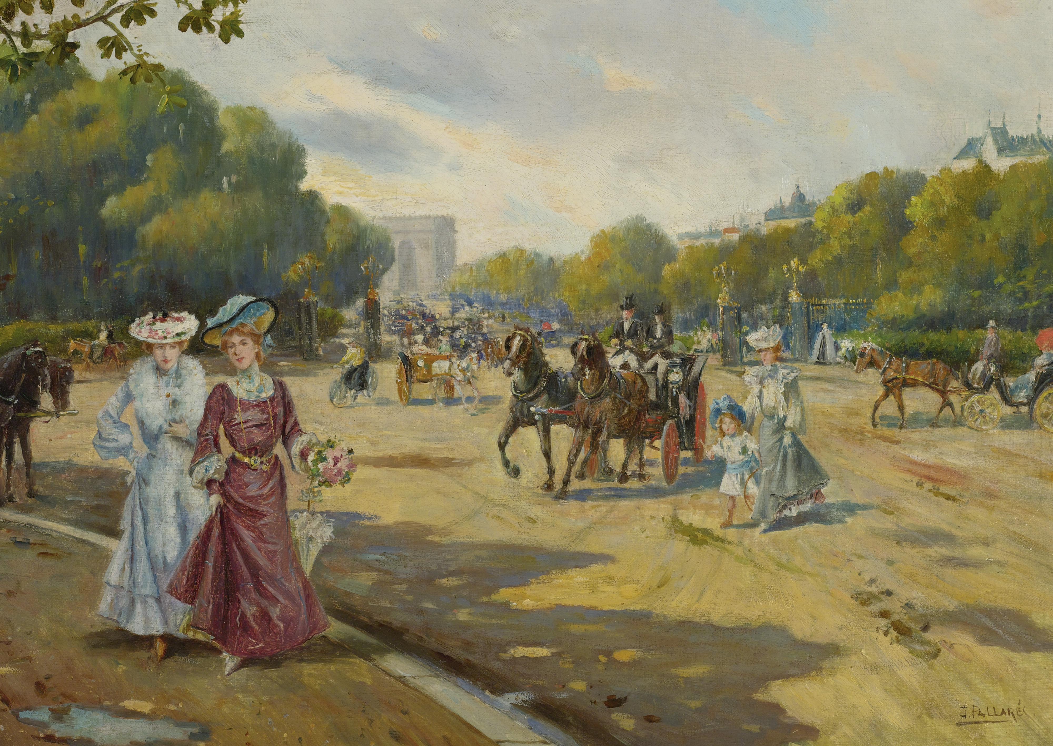 Port Dauphine Bois de Boulogne, Oil on canvas, 32.1 x 45.1 cm